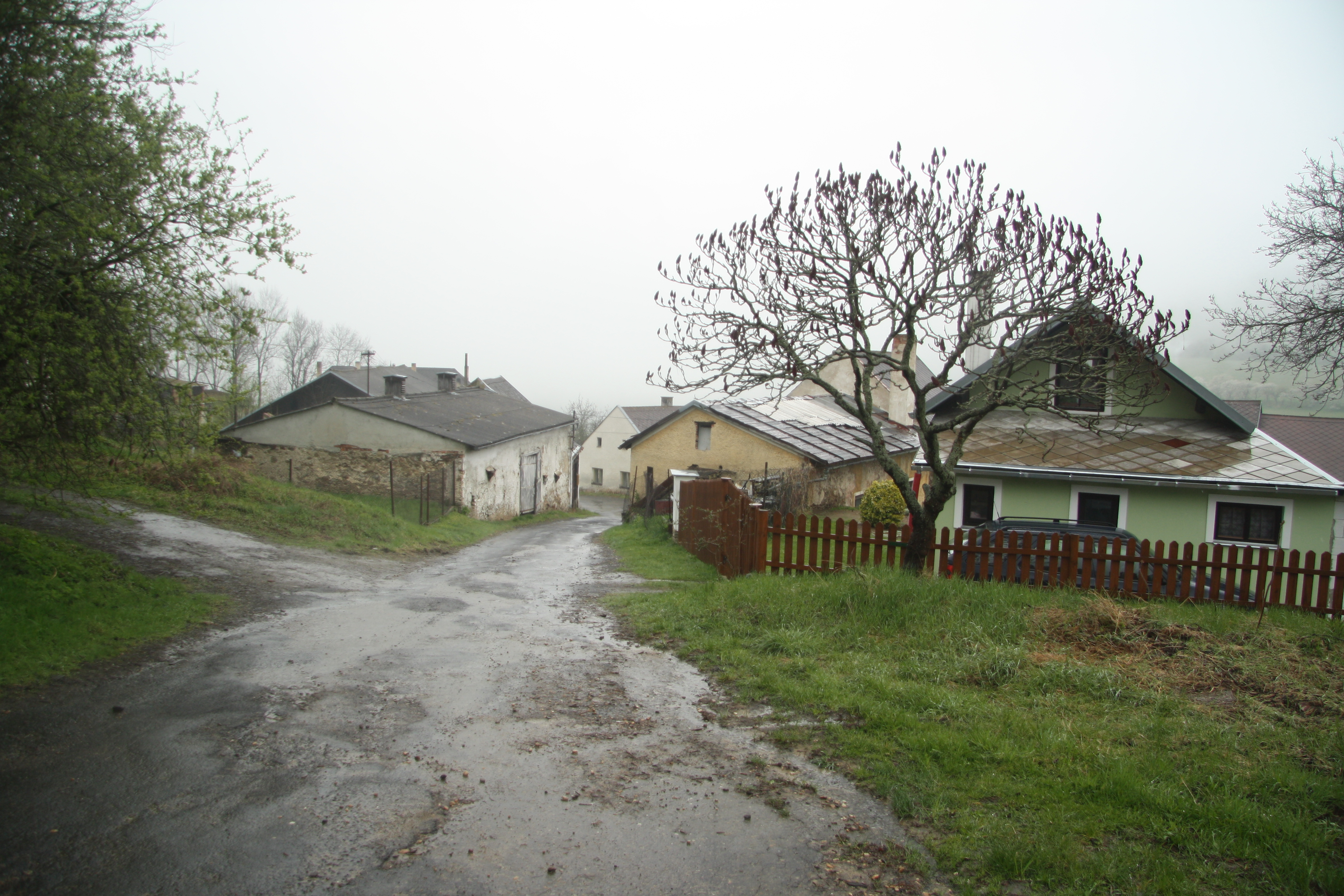 Center of Vrabcov, Sušice, Klatovy District.